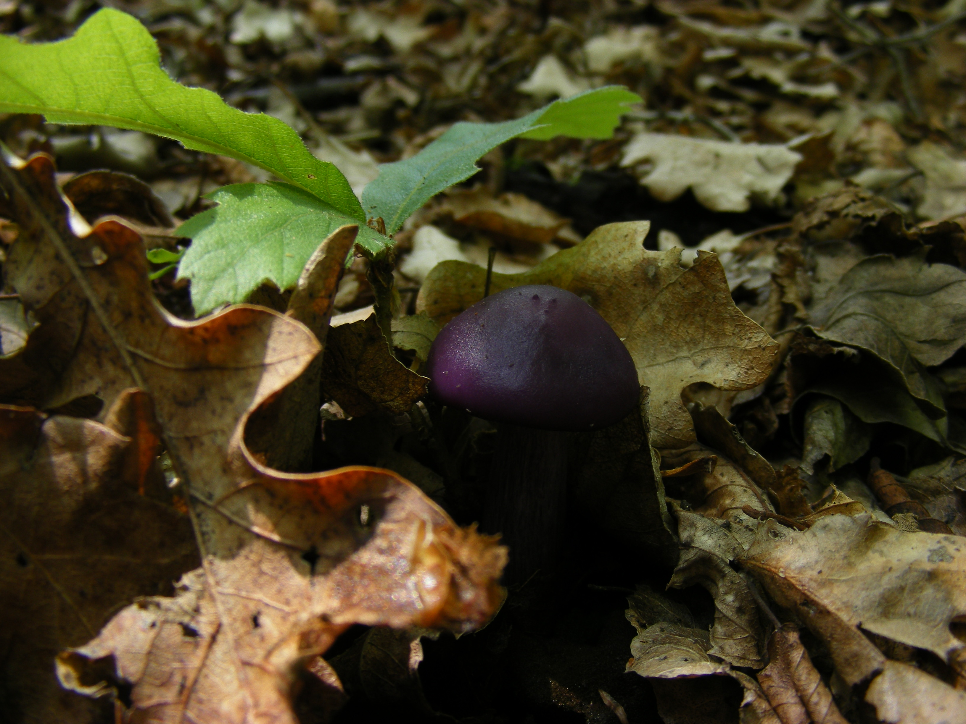 Lepista nuda